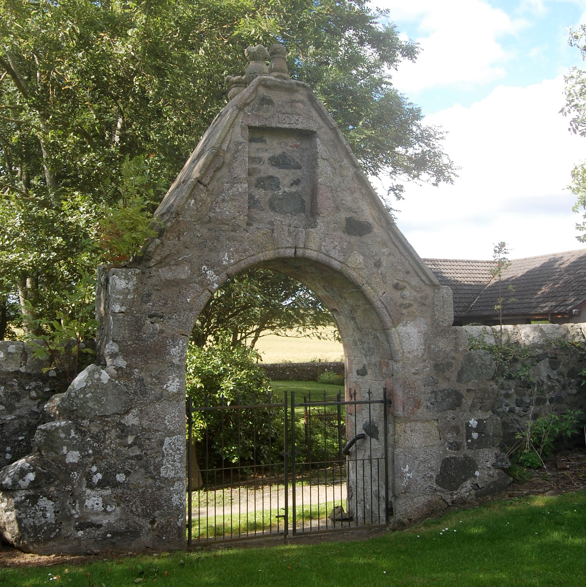 Pittodrie's Yate (Gate), Chapel of Garioch